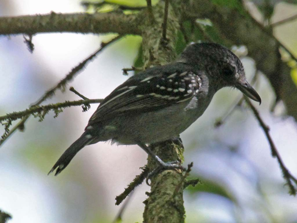 Male Western Slaty-Antshrike (Thamnophilus atrinucha)- Soberania National Park, Panama